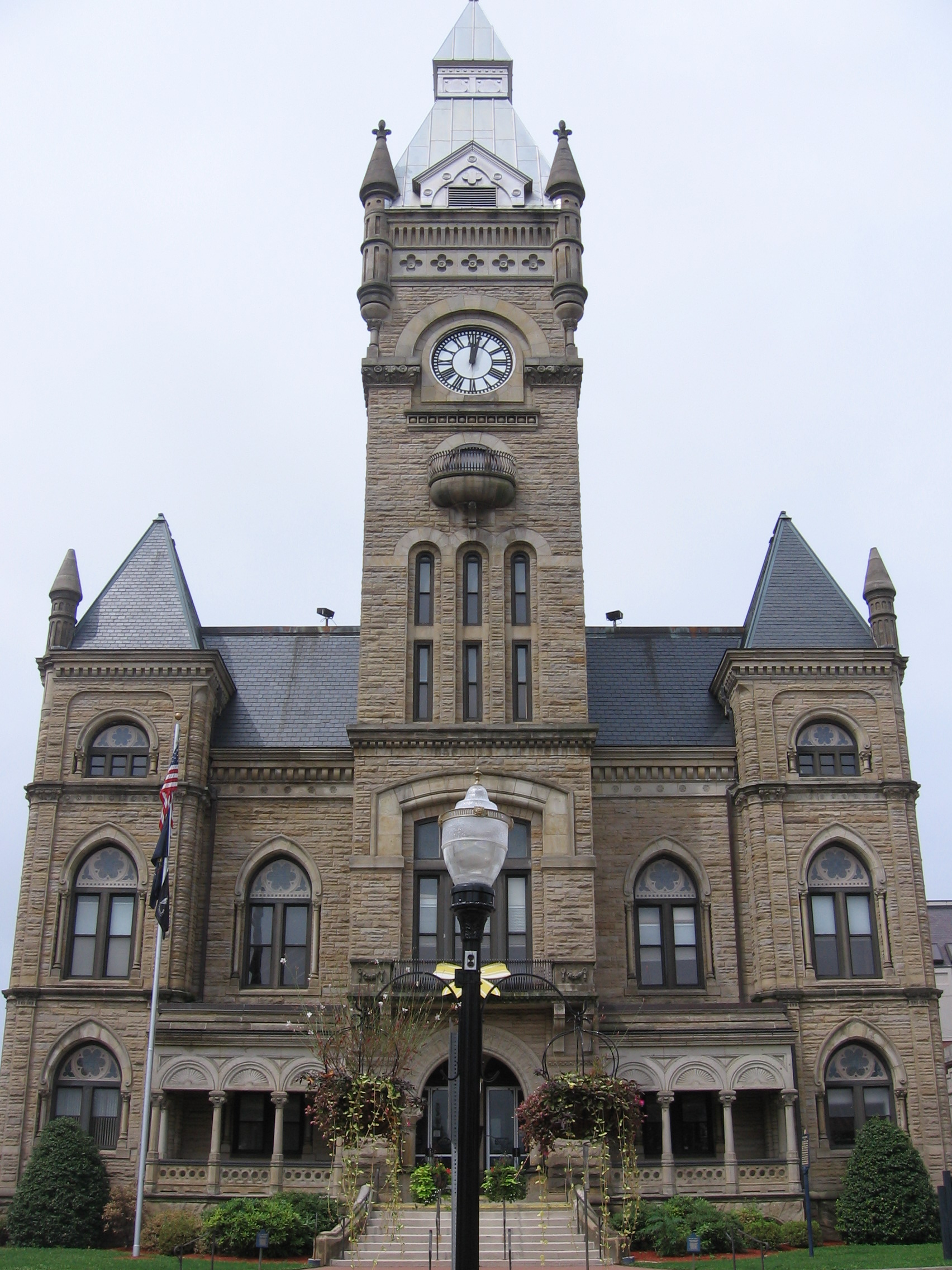 Front of the Butler County Courthouse, located at the intersection of South Main and West Diamond Streets in downtown Butler, Pennsylvania, United States. Built in 1885, the courthouse is listed on the National Register of Historic Places, and it is located within the bounds of the Register-listed Butler Historic District.